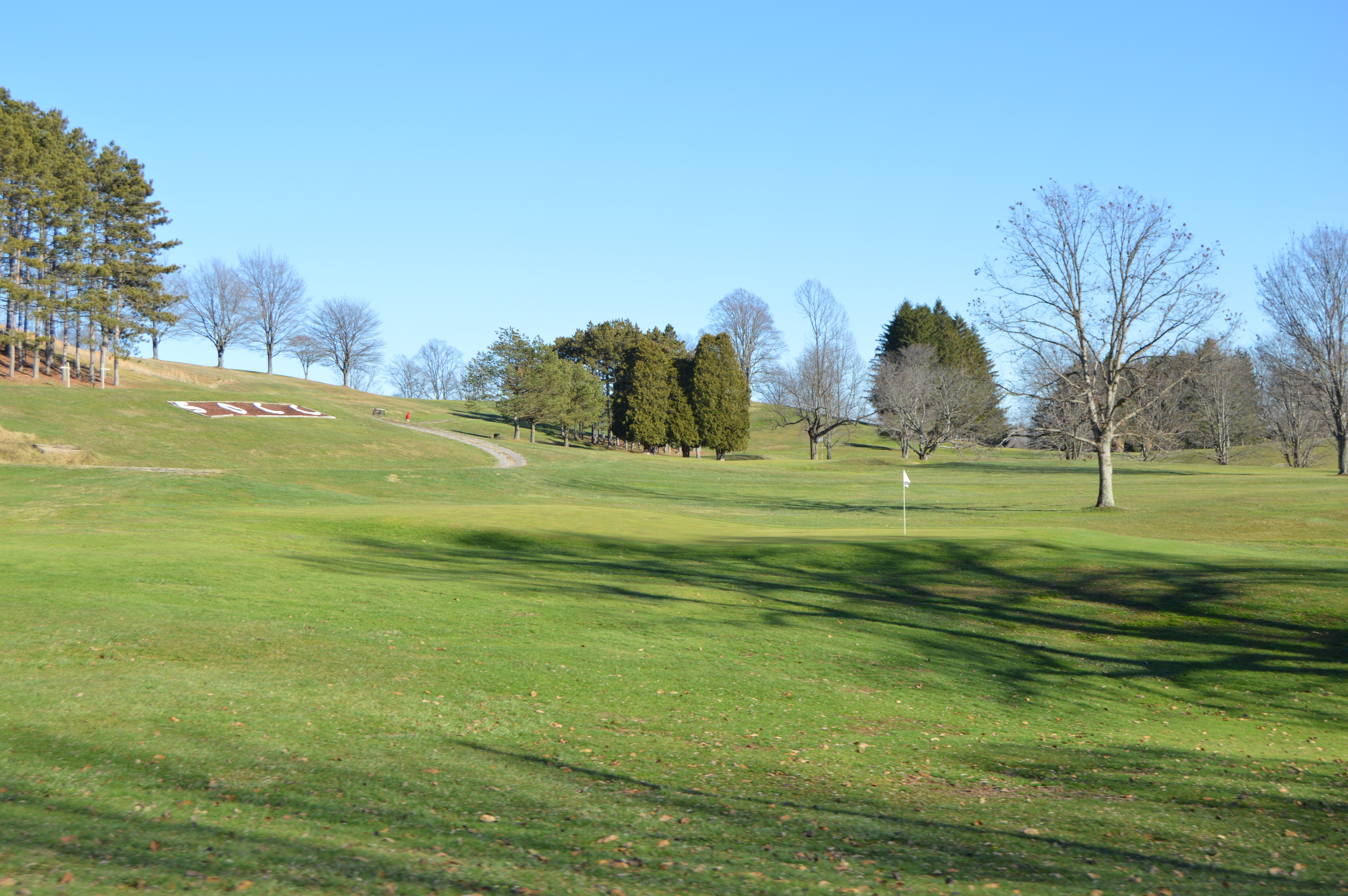 A green and surrounding terrain at the Switzerland of Ohio Country Club, located on State Route 26 immediately west of Wilson in southernmost Wayne Township, Belmont County, Ohio, United States. Although this was taken two days after Christmas, unseasonably good weather permits the course to remain in use; two golfers' heads can be seen just to the right of the large "SOCC" sign at the left.